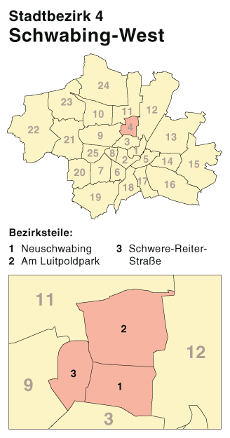 Boroughs of Munich map series